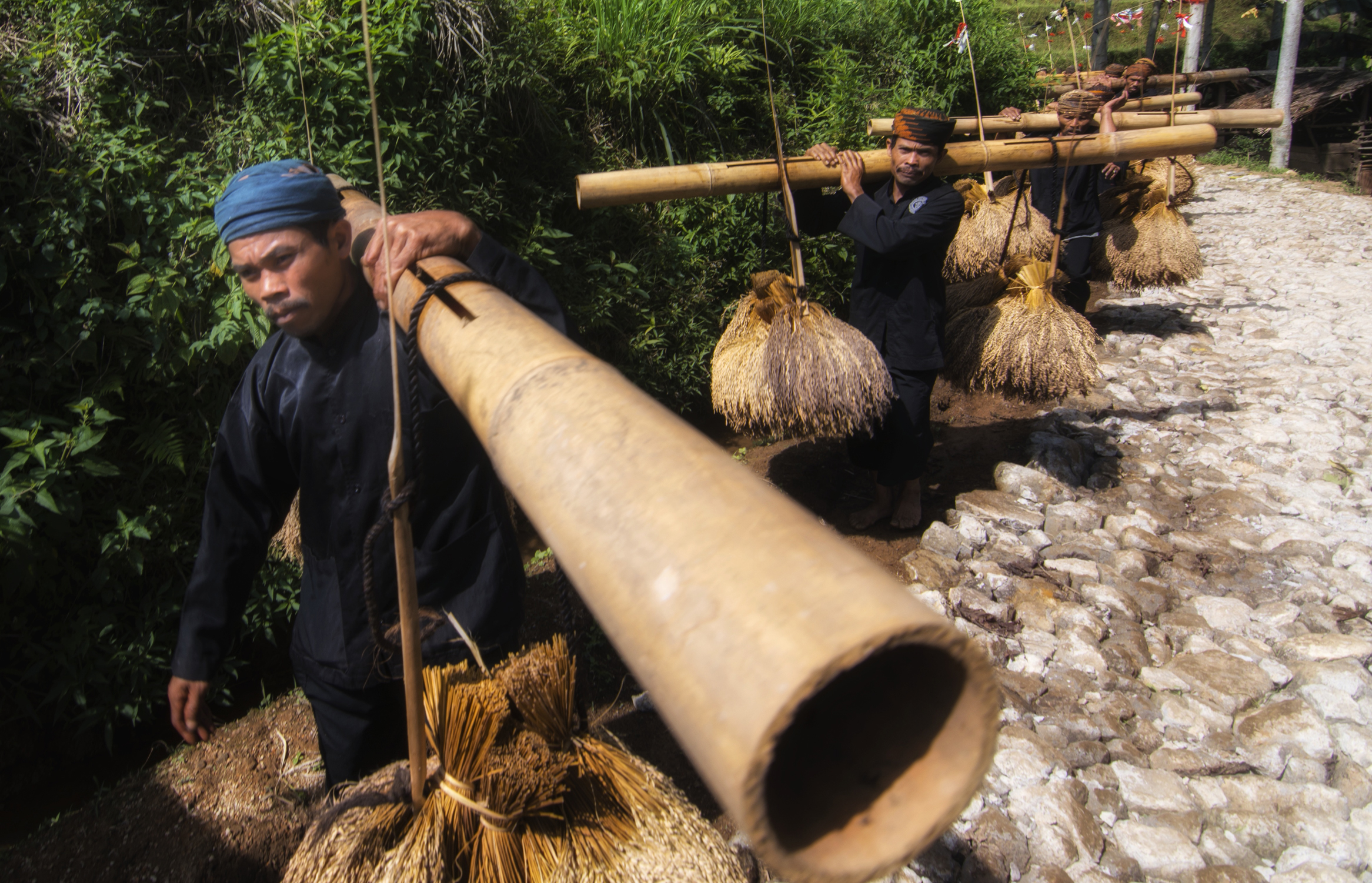 Seni Rengkong Seren Tahun Ciptagelar ke 649 dan Harmoni Budaya Masyarakat Agraris. Kesenian ini terlahir dari Budaya masyarakat Sunda yang mayoritas dikenal bermata pencaharian sebagai Petani. Memikul Padi dengan bilah bambu yang menghasilkan harmoni dengan tali ijuknya. Masyarakat agraris ini terkenal sejak lama dengan varietas padi unggulan yang diwariskan secara turun temurun. Oleh karena itu Jawa Barat dikenal sebagai "benteng pangan" bagi masyarakat di Nusantara. Dari kehidupan agraris ini lah yang kemudian melahirkan berbagai kesenian dan tradisi, Seni Rengkong ini salah satunya.